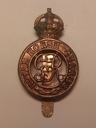 Photo of Royal Horse Guards Cap Badge from personal collection